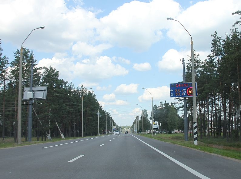 M3 highway in Bjahoml (Dokšytsy raion, Vitsebsk area, Belarus) when driving towards NE.